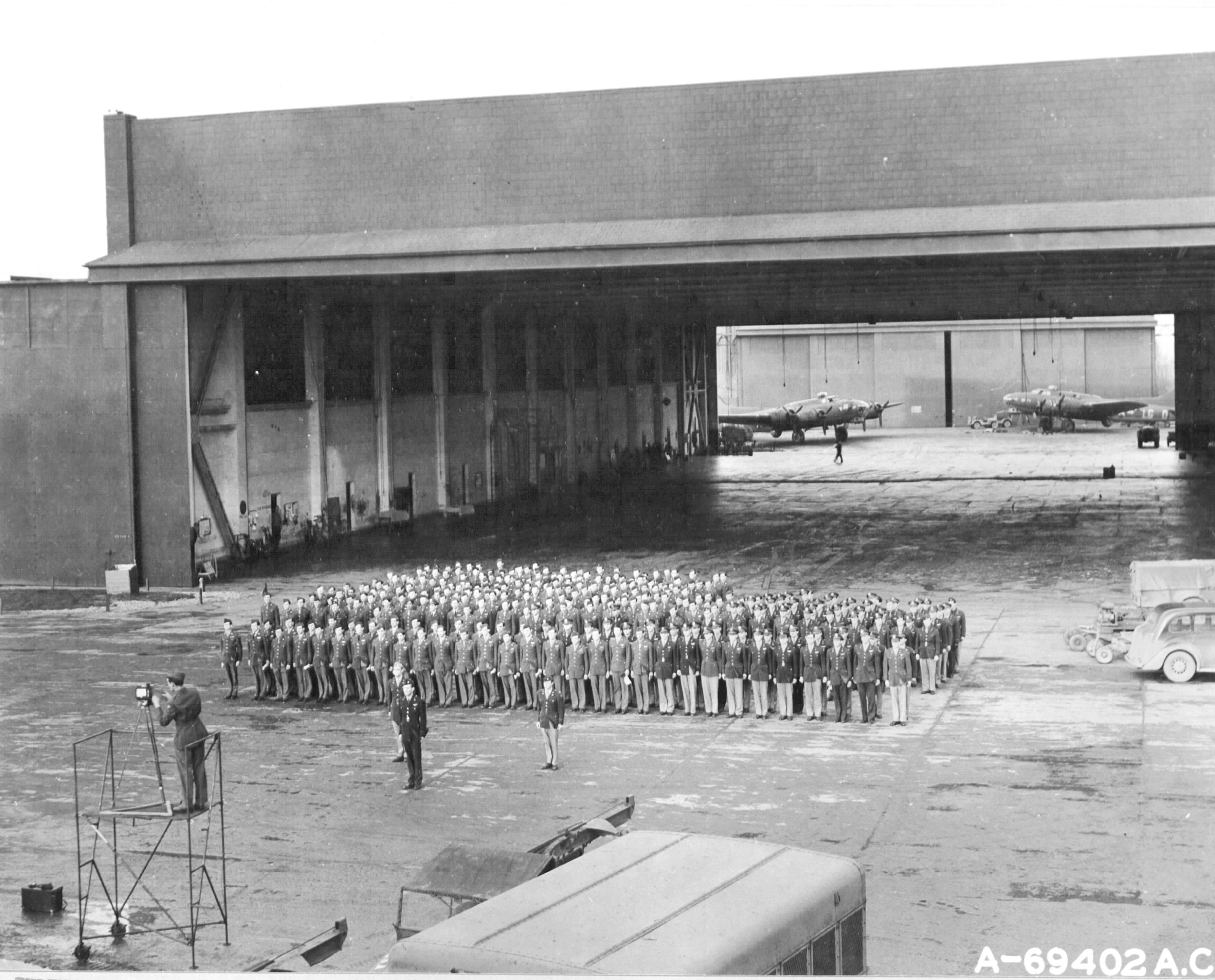 RAF Bassingbourn 322d BS 91st BG 1944 Photo was probably taken sometime in early 1944. This is a good indication of the size of one of the four hangars at Bassingbourn. The 91st Bomb Group was stationed there from October 1942 till the end of the war.